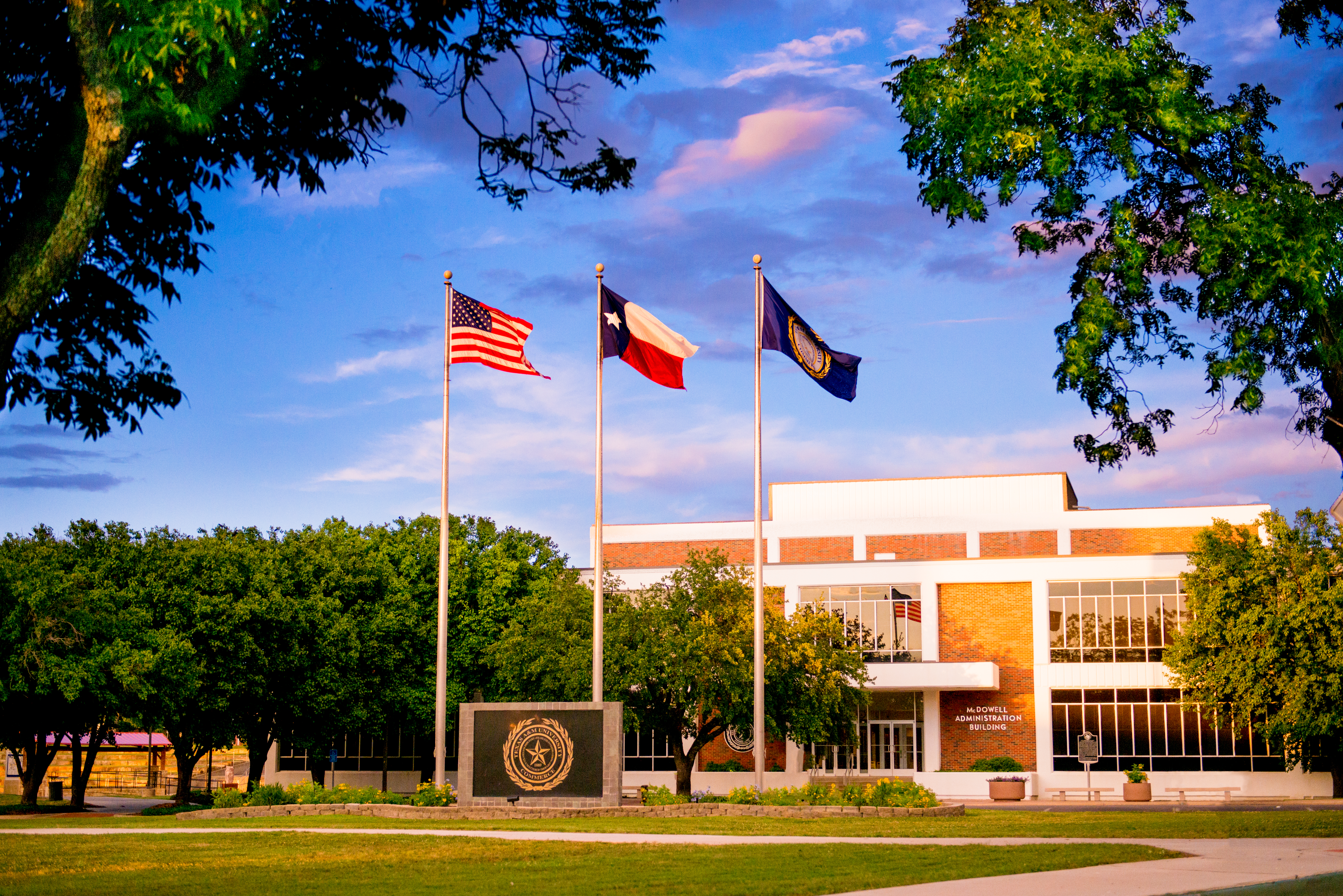 14292-BA building sunset 1606-Edit-final.jpg Texas A&M University–Commerce BA building at sunset